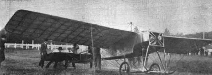 Argentine aircraft Castaibert IV-913 built by Pablo Castaibert)